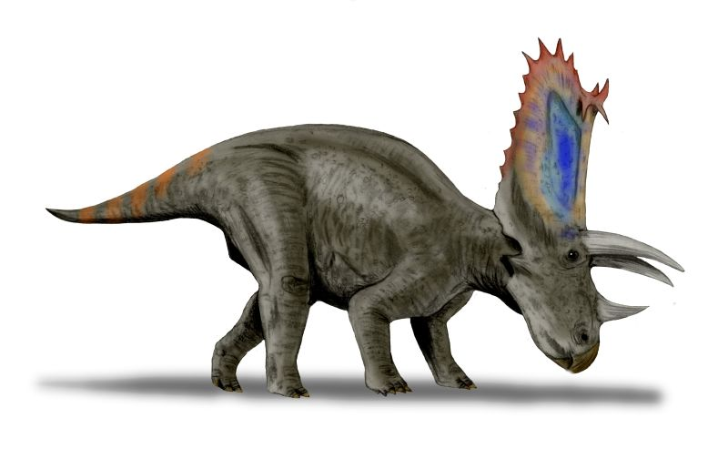 Pentaceratops sternbergi, a ceratopsian from the Late Cretaceous of North America, pencil drawing, digital coloring